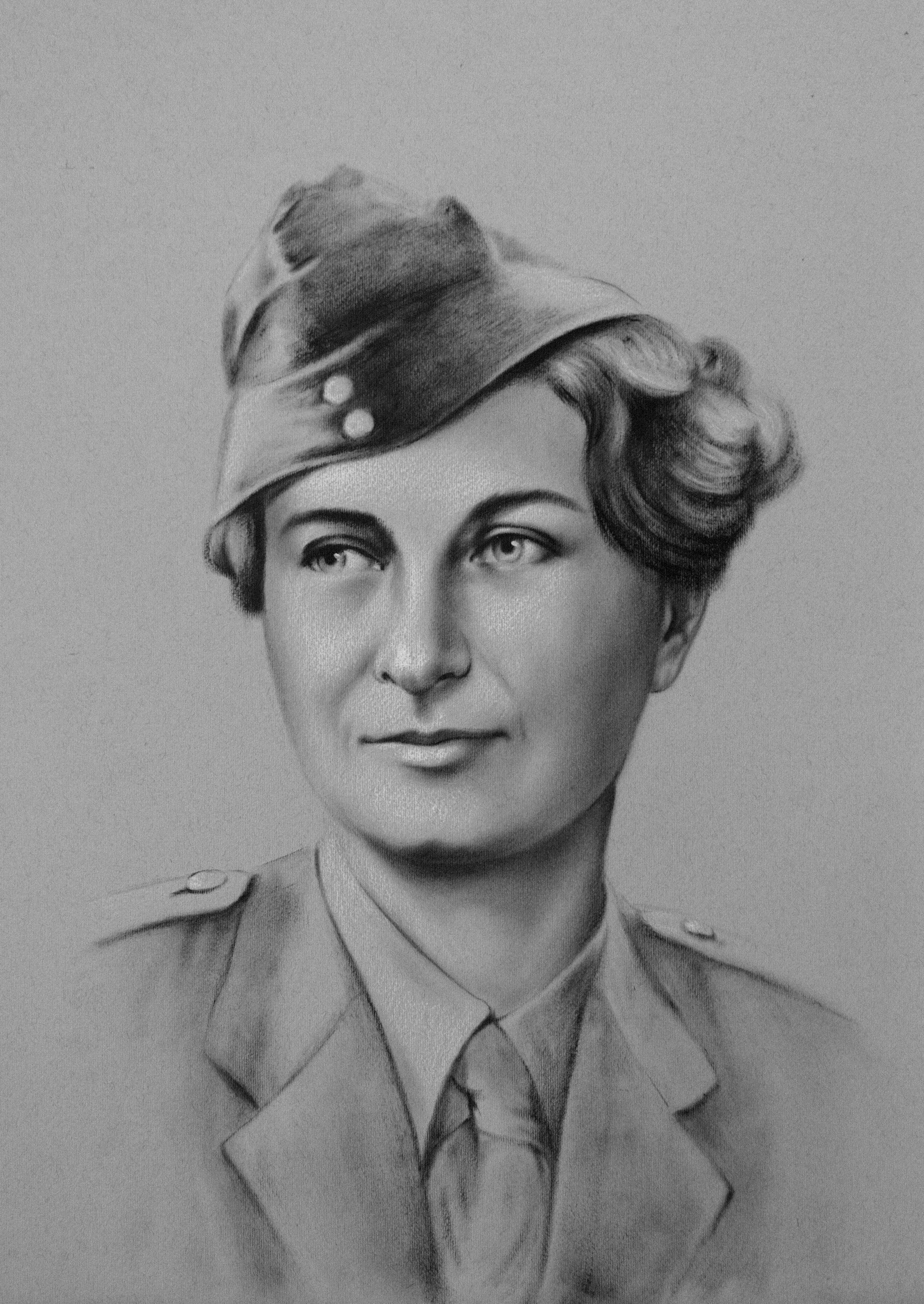 Susan Travers (23 September 1909 – 18 December 2003) was an Englishwoman who was the only woman to serve officially with the French Foreign Legion.